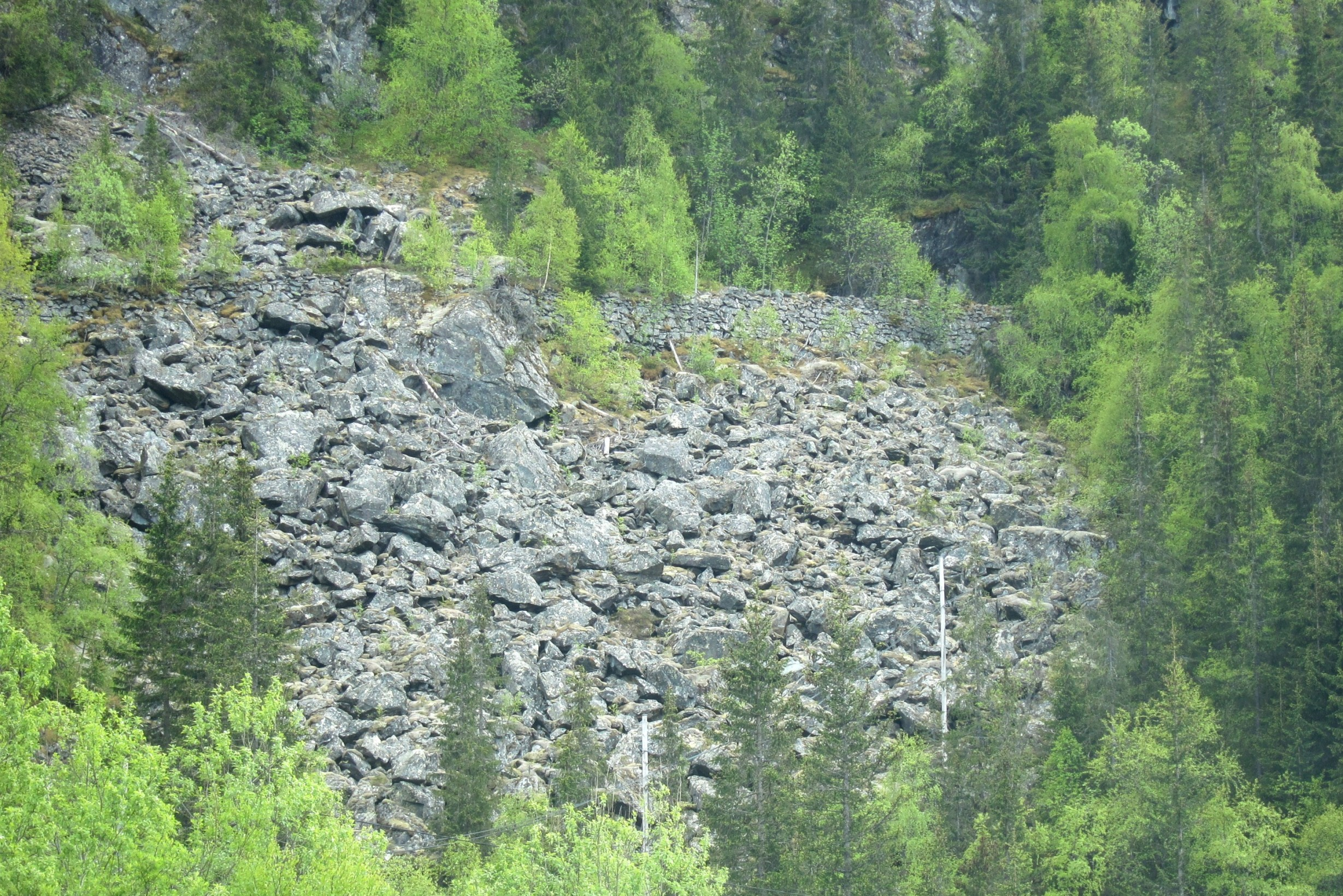 Old road Oslo-Bergen (used 1808-1862) at Kvamskleiva (between Nes and Syndrol), Vang, Valdres.